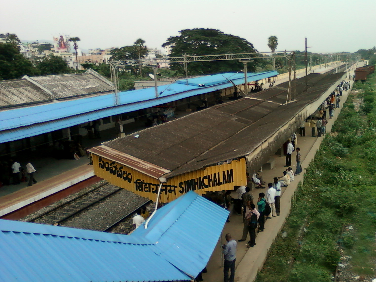 Simhachalam Railway Station View, Simhachalam, Visakhapatnam